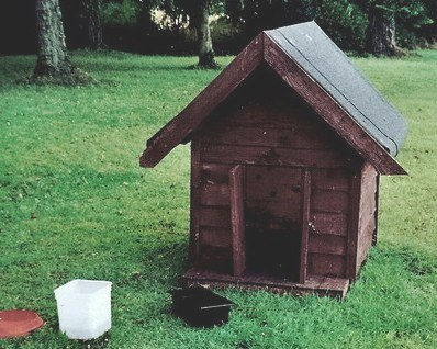 A doghouse in the Castledaly Manor, near Athlone, Ireland.